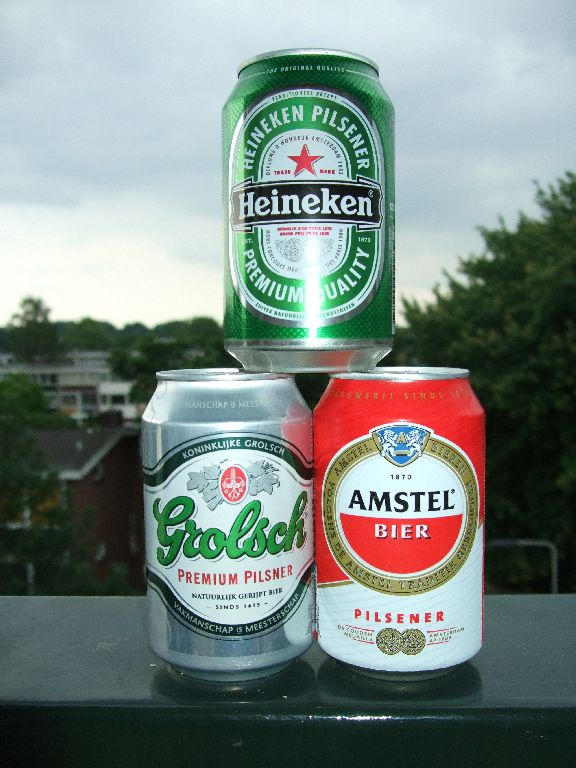 330ml cans of beer from Amstel, Grolsch and Heineken